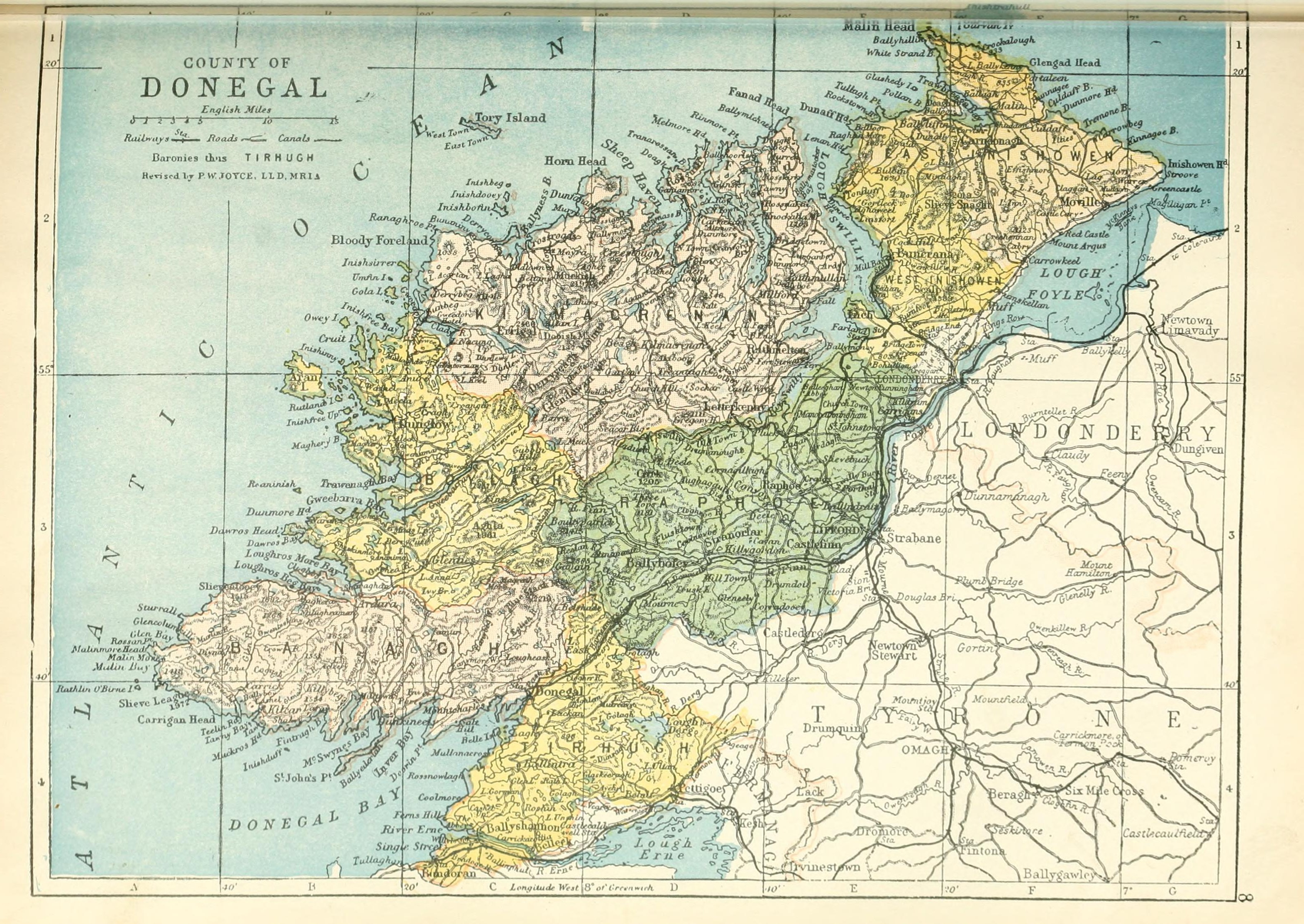 Map of the baronies of County Donegal in Ireland; taken from Atlas and cyclopedia of Ireland, p.86